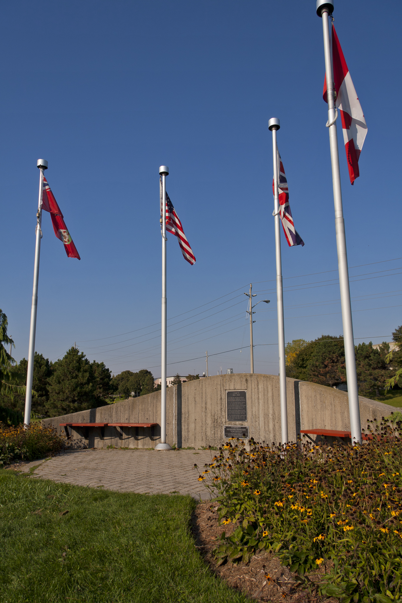 The monument at the site of Camp X. Photographed in the afternoon of Sunday, October 9, 2011.